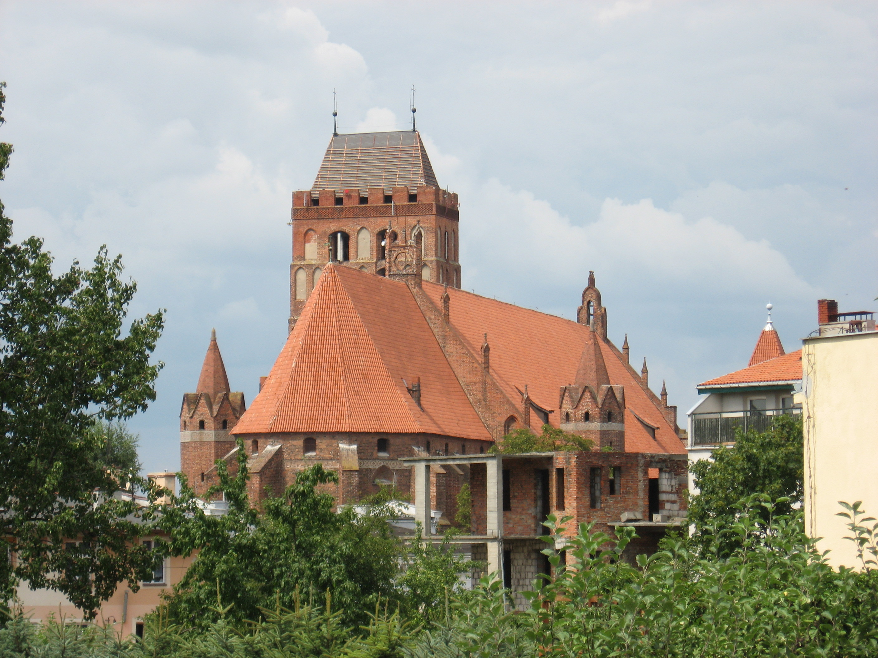 Kwidzyn, cathedral seen from Słowiańska Str., from eastern side